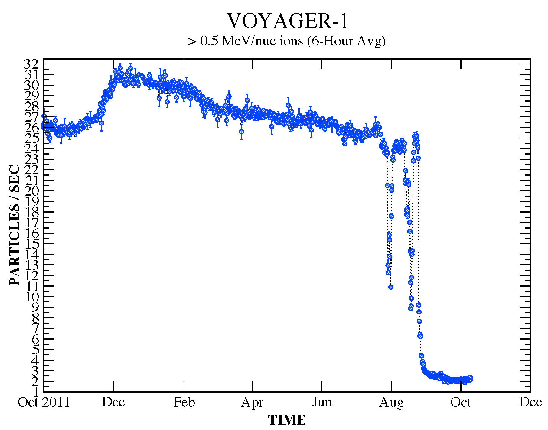 Readings from LA1 instrument on Voyager 1 consisting of collisions of greater than 0.5 MeV/nuc nuclei, principally protons, and is sensitive to low-energy phenomena in interplanetary space